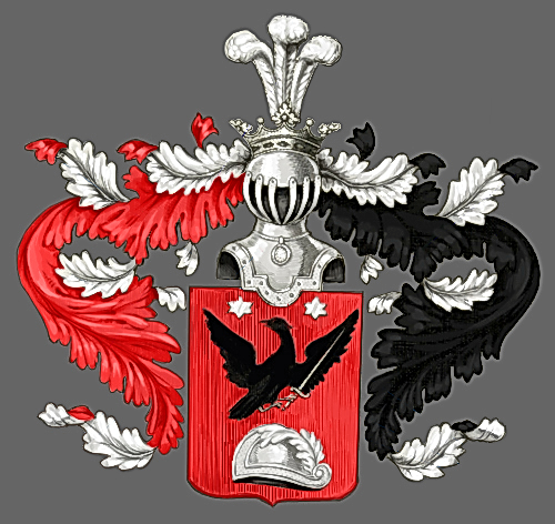 Coat of Arms of Chubarov family